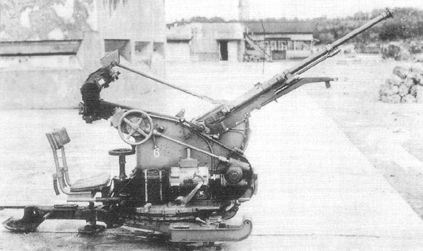 Imperial Japanese Army Type 2 20 mm AA machine cannon